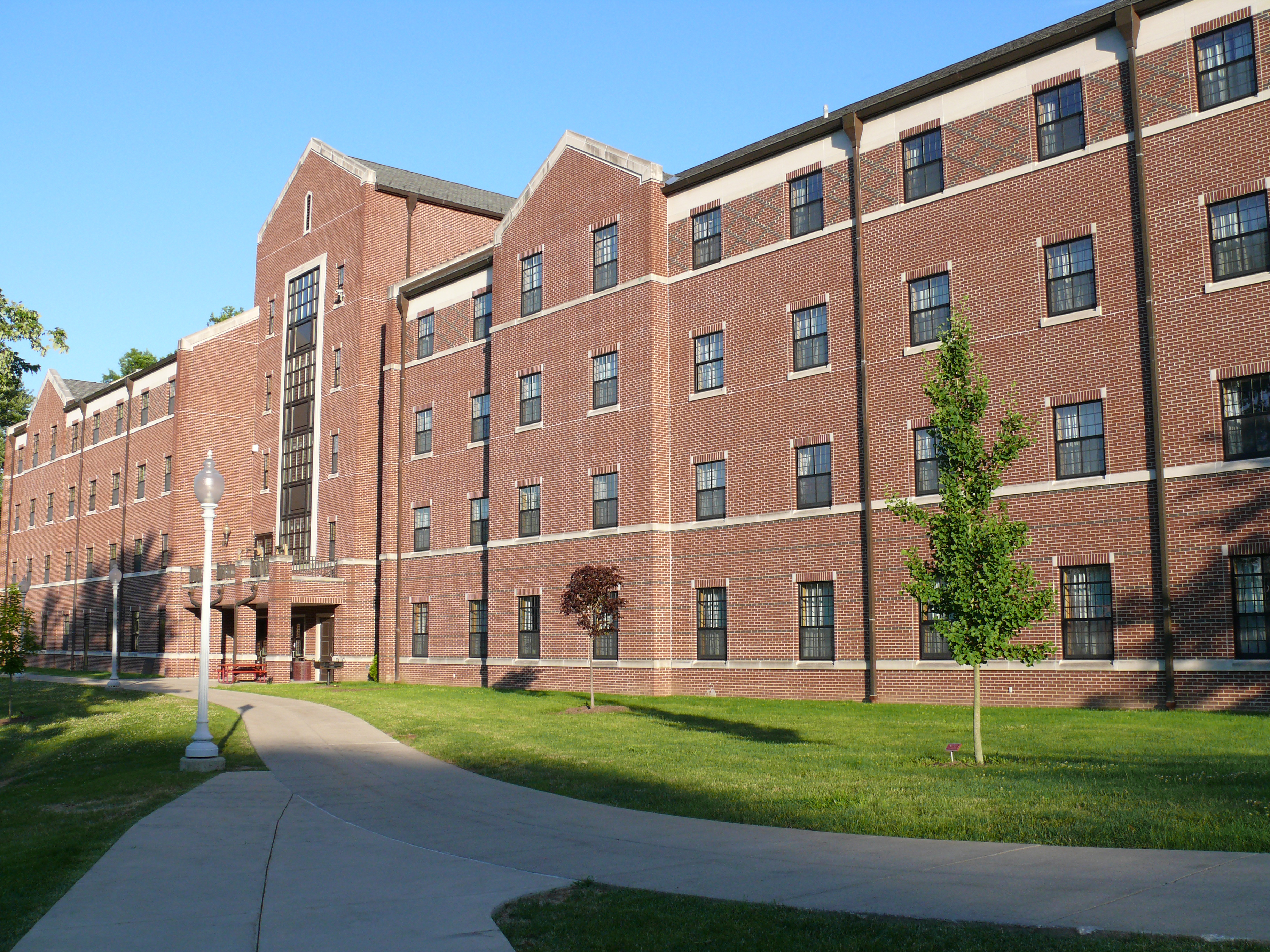 Percopo Hall at Rose-Hulman Institute of Technology.